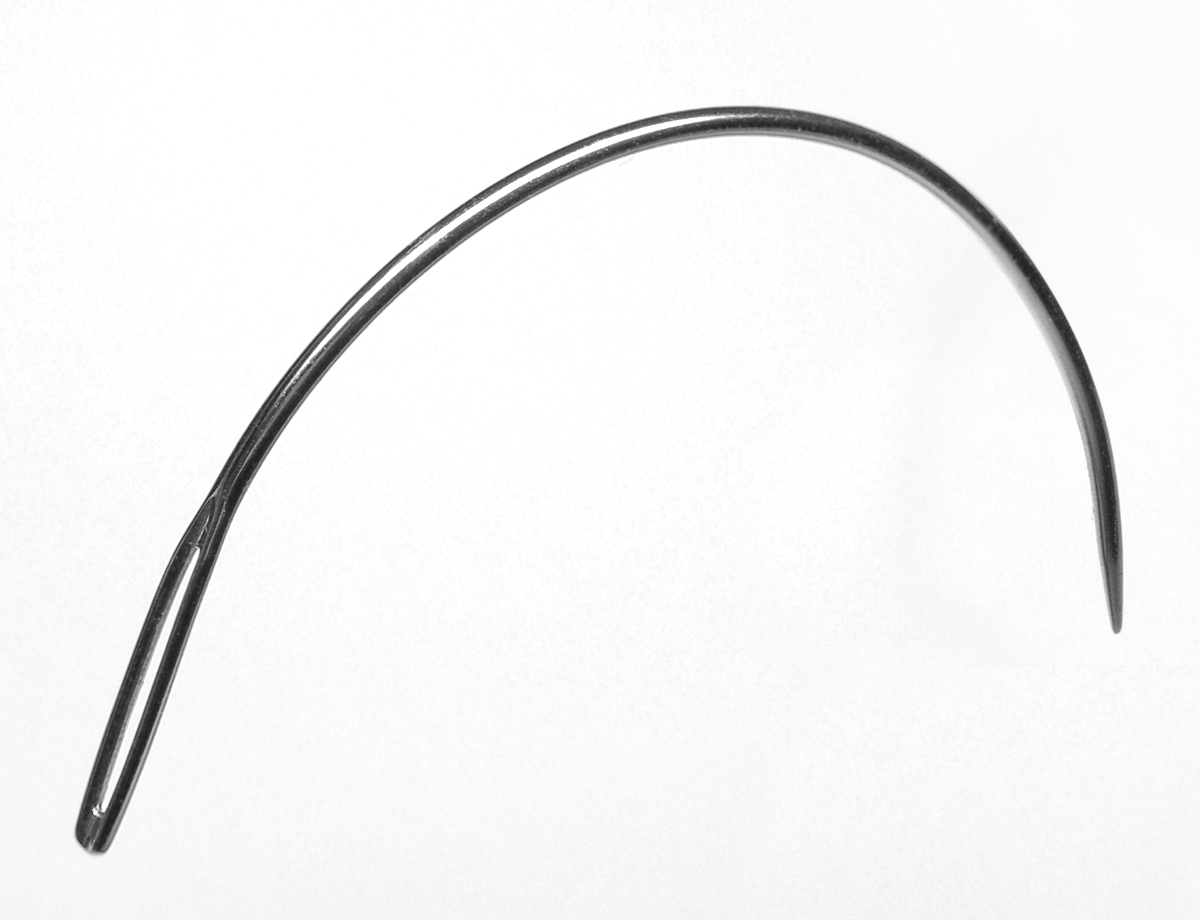 circular needle